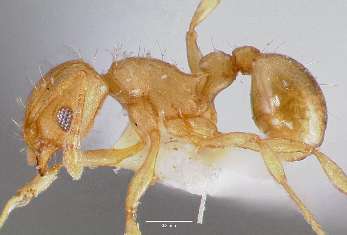 Profile view of ant Wasmannia auropunctata specimen casent0005064.